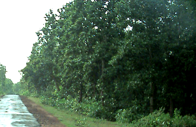 Sal trees in Arabari forest, in West Midnapur. Joint Forest Management maintains the forest.